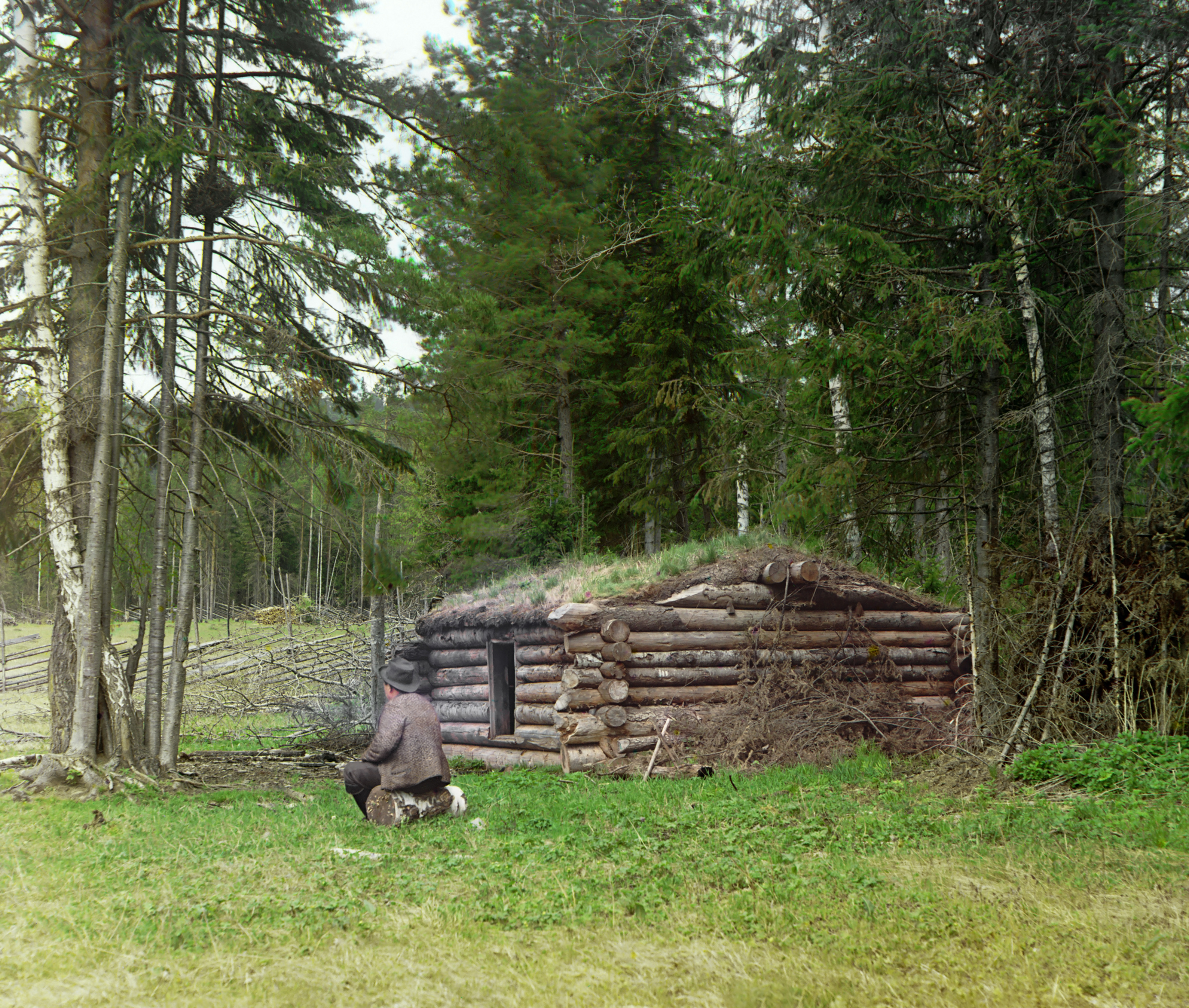 Original Description: Hut in the forest, for woodcutters and kuria (coal burning). Small log cabin next to woods with man seated on log nearby.